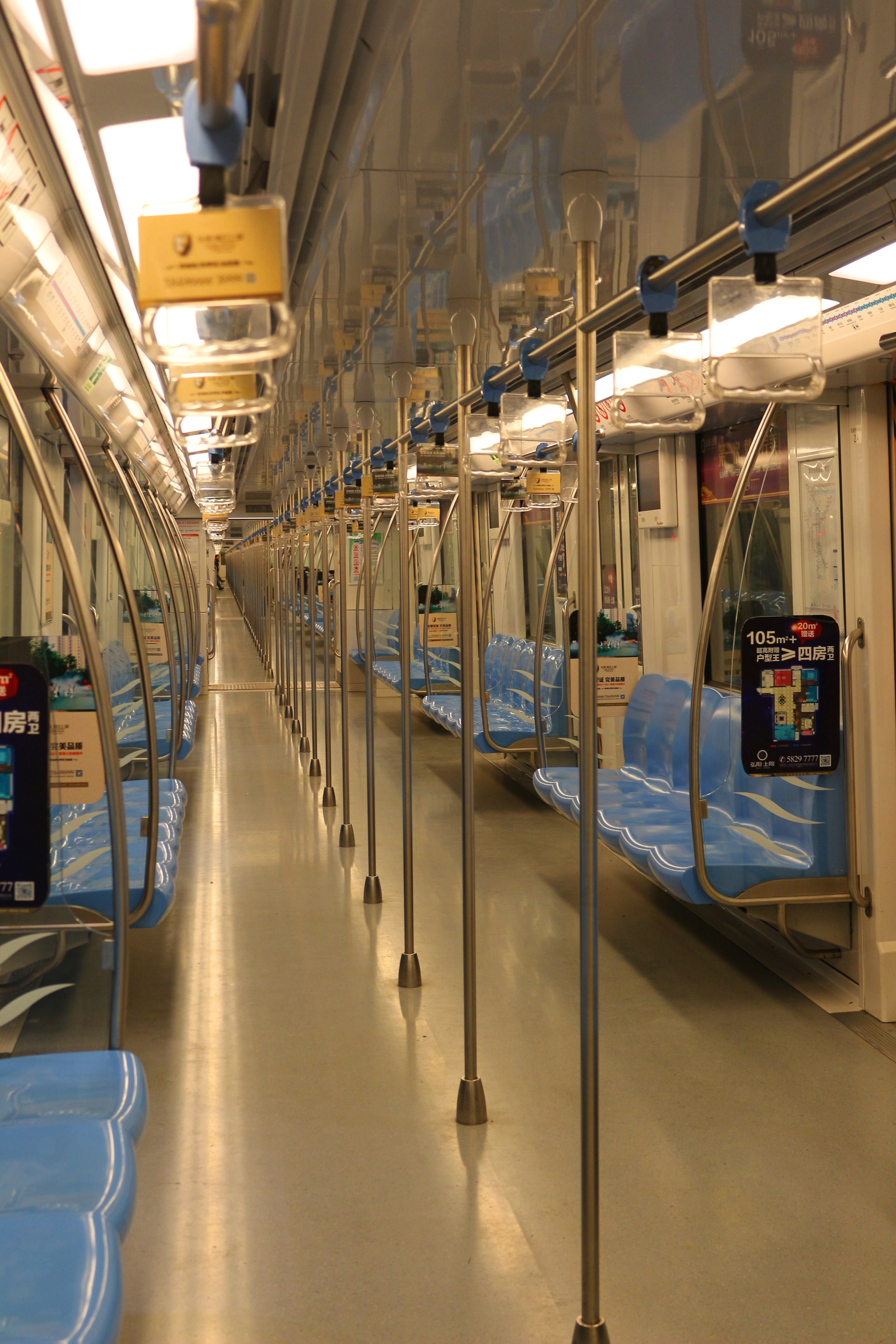 Nanjing Metro Line 1 train's inside scene